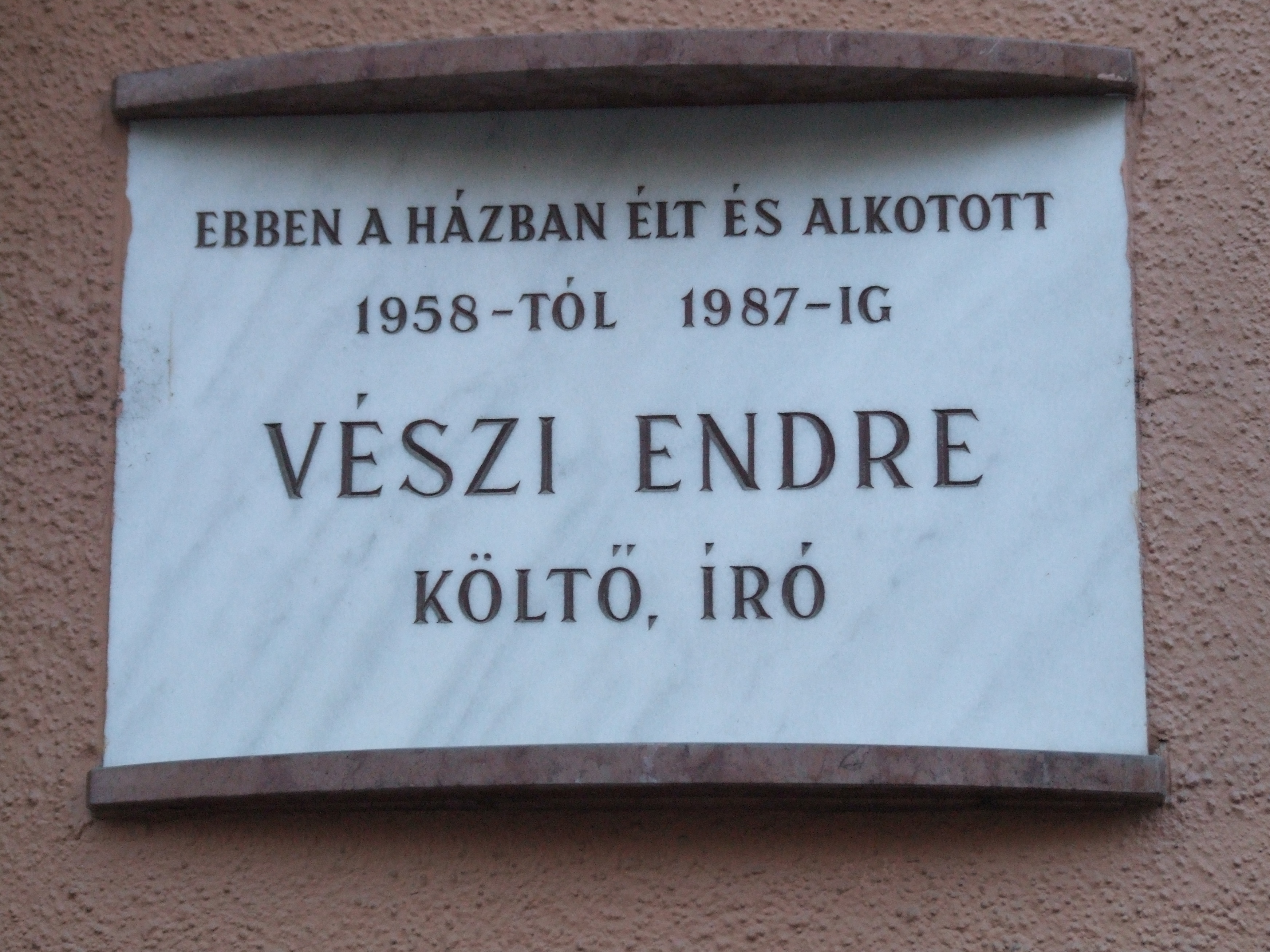 Endre Vészi commemorative plaque in Budapest District I, Attila Street No 22.